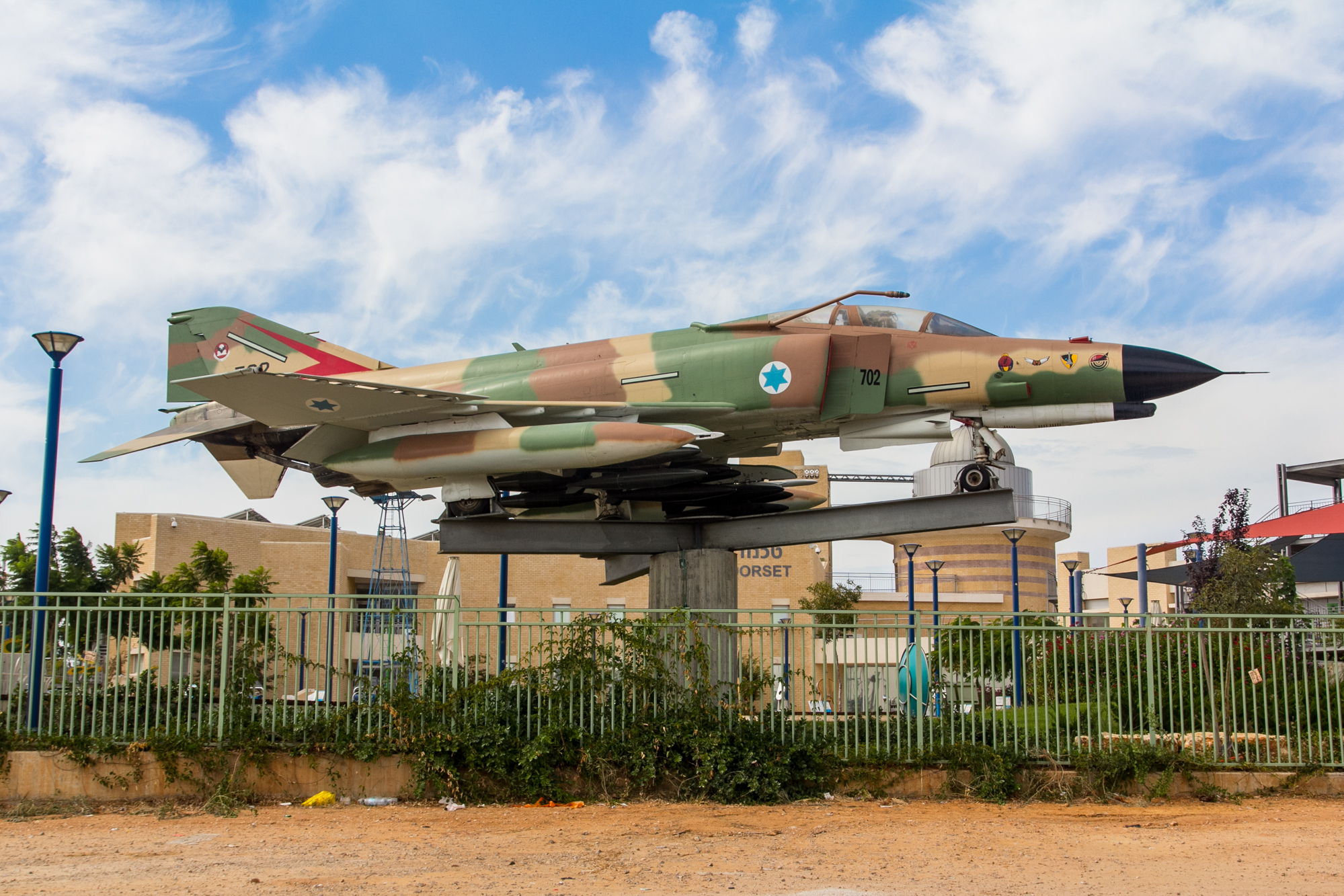 Israeli Air Force 119 "Bat" Squadron F-4E Phantom II at the Givat Olga Technoda